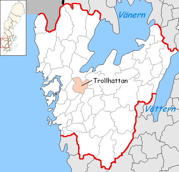 Trollhättan Municipality in Västra Götaland County Designed by me. Mere outlines are a PD source from